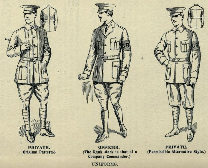 The uniforms of the Volunteer Training Corps in World War I